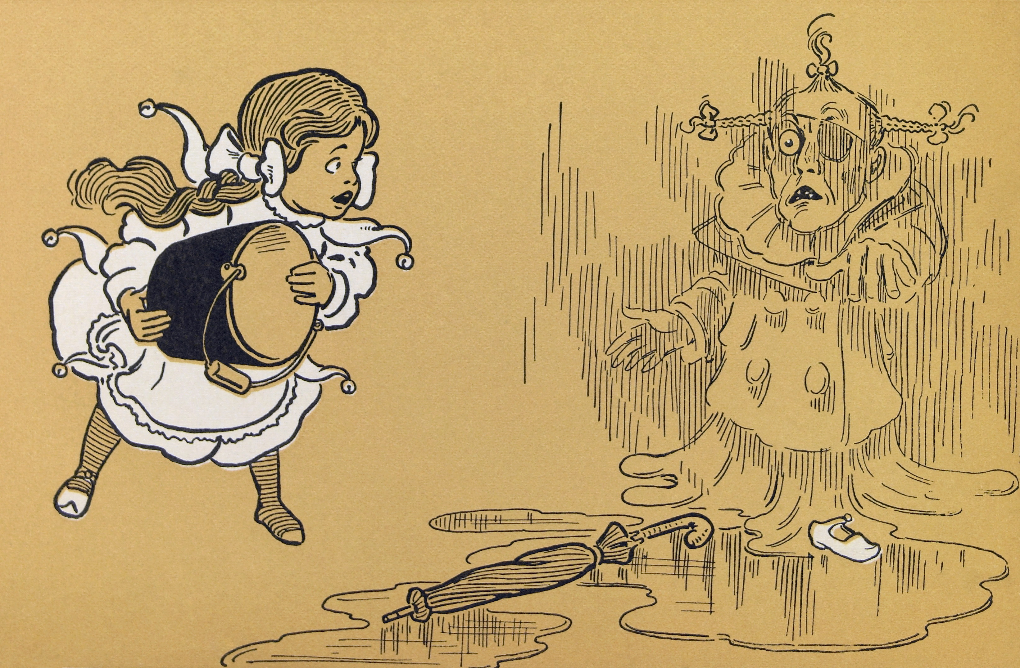 The Wicked Witch of The West, melting after being doused by Dorothy. From the first edition of The Wizard of Oz.